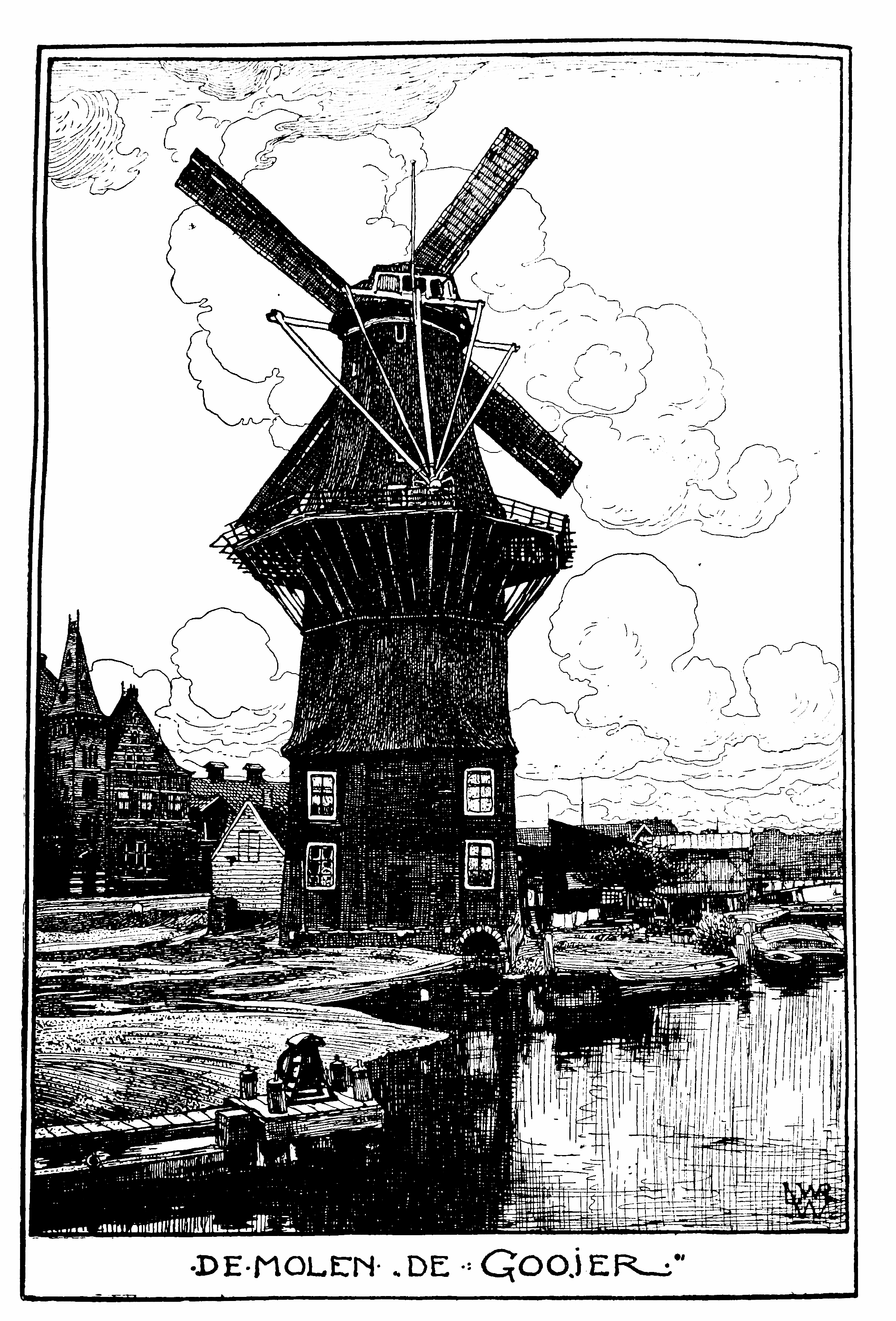 Drawing by L.W.R. Wenckebach of the windmill De Gooyer in Amsterdam, The Netherlands.